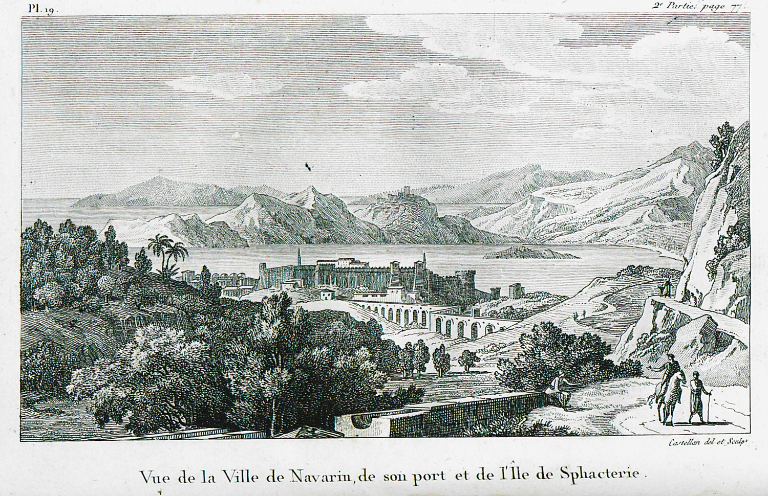 Antoine-Laurent Castellan. Lettres sur la Morée et les iles de Cérigo, Hydra, et Zante, avec vingt-trois Dessins de l’Auteur, gravés par lui-même, et trois Plans, Paris, Η. Agasse, 1808.